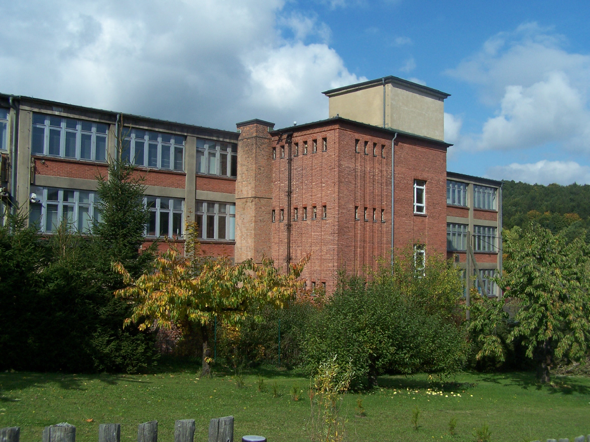 The listed building of the EUROCHRONE factory.